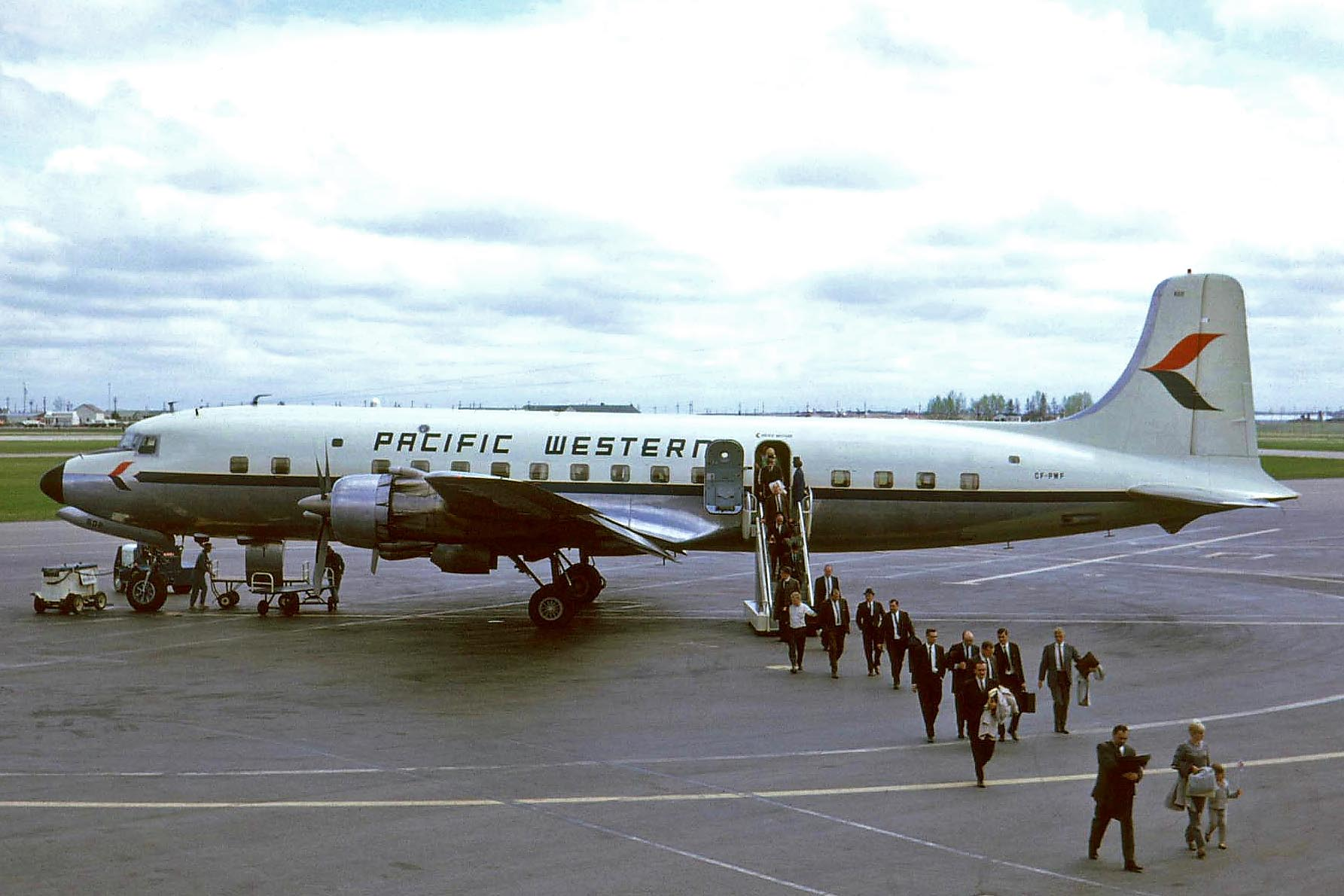 Taken at Calgary (YYC), Alberta, Canada